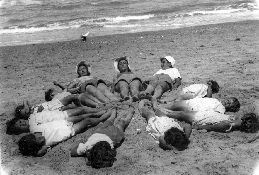 Ein Hahoresh, Wildlife and Plants of Israel